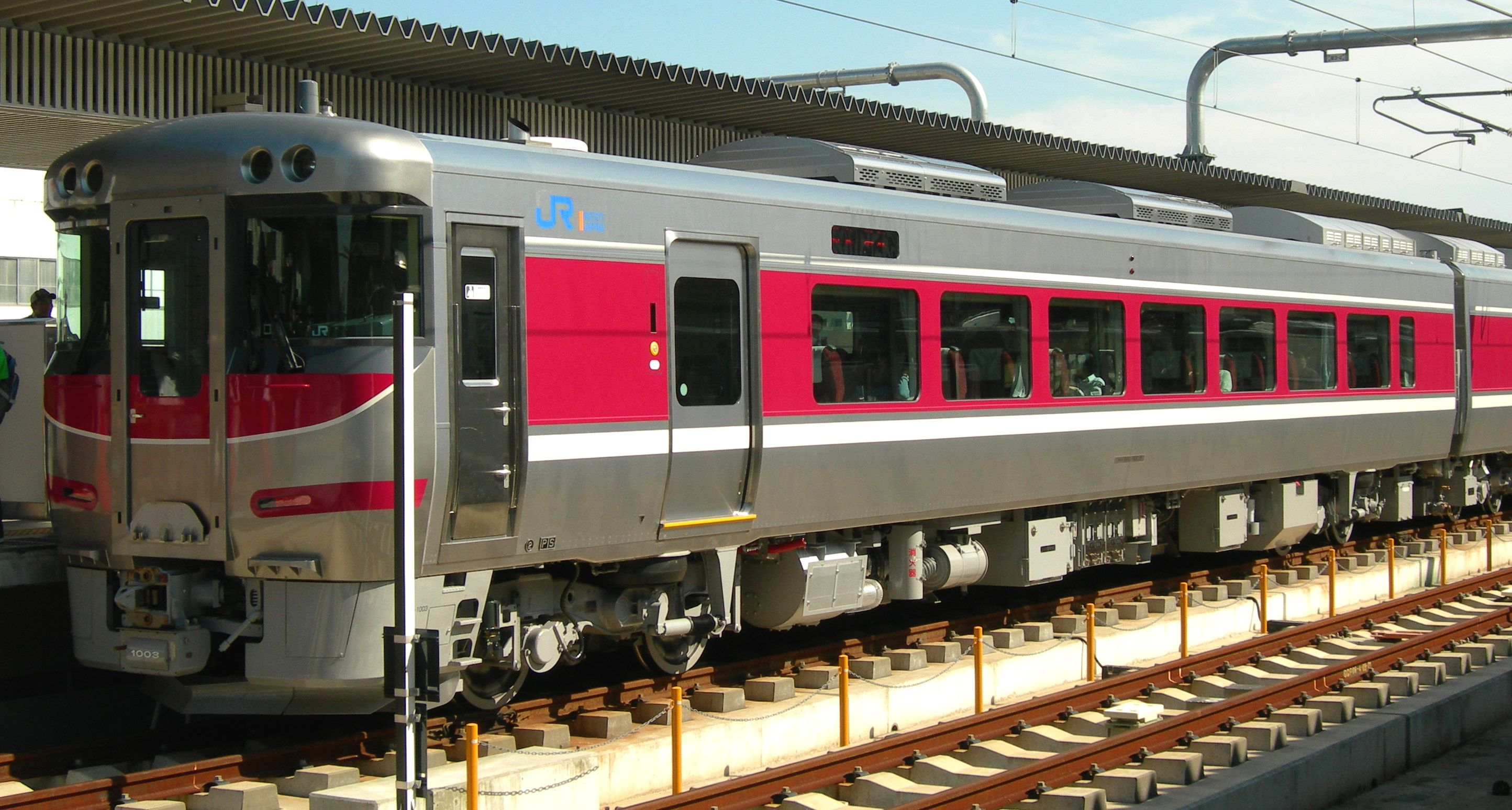 JR West KiHa 189 series DMU car KiHa 189-1003 at Himeji Station